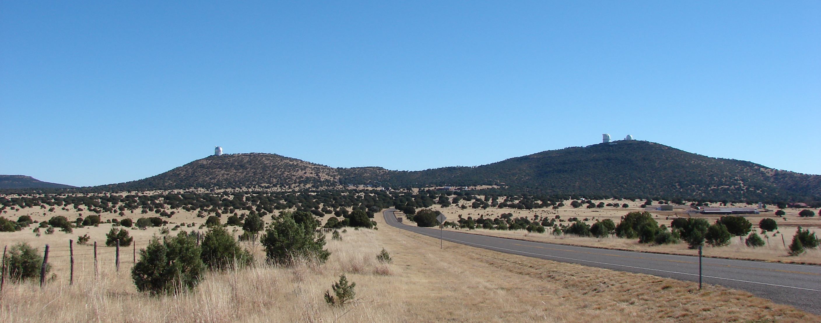 A view of McDonald Observatory from highway TX-118. Mt. Fowlkes is on the left while Mt. Locke is on the right. The dome of the Hobby–Eberly Telescope is visible on Mt. Fowlkes while the domes of the Harlan J. Smith Telescope and Otto Struve Telescope are visible on Mt. Locke.